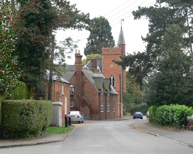 The Tower House in Lubenham Located on Rushes Lane, this is a 18th-century farm-house in the Gothic style.